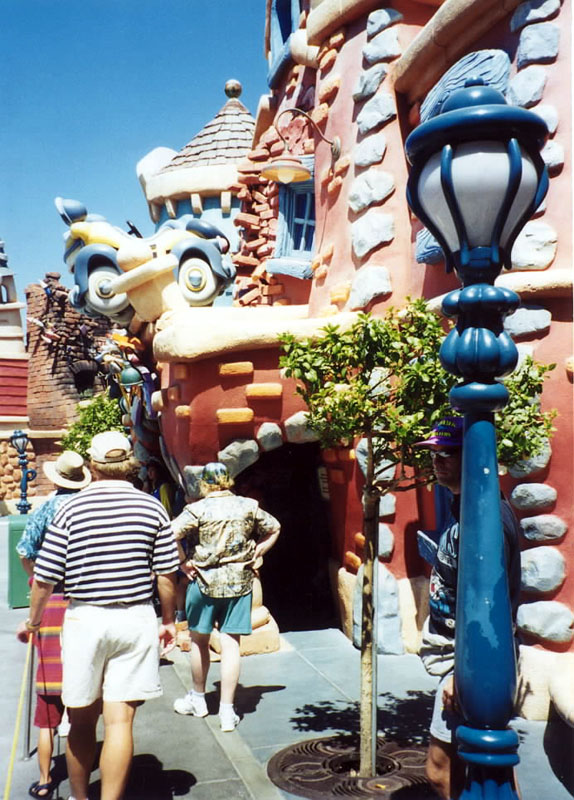 Toontown 1995 Disneyland Taken by Ellen Levy Finch (User:Elf)